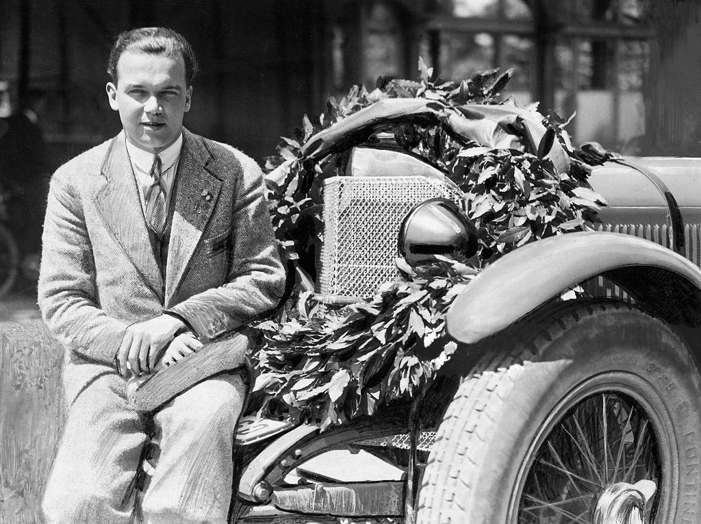 Caracciola, Rudolf - Racing Driver, Germany 30.01.1901-28.09.1959 with his racing car - Photographer: Hugo Kuehn- Published by: 'B.Z. am Mittag' 01.07.1928